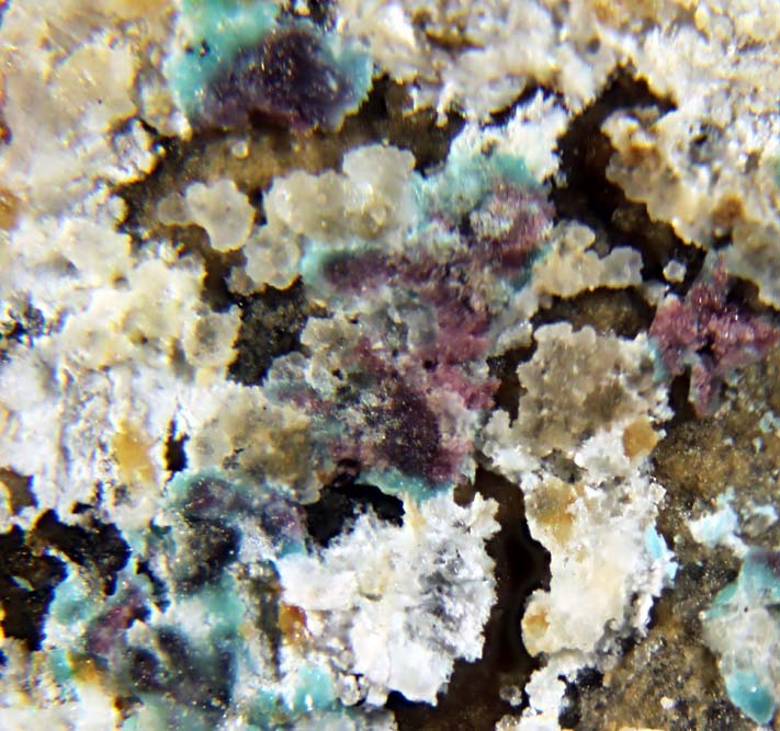 Dark violet crystal aggregates of joannneumite (IMA 2012-001), from Pabellon de Pica, Chanabaya, Iquique Province, Tarapacá Region, Chile. The mineral is a chemical oddity because is a mixture of two organic compounds (ammine-cianurate) and an inorganic compound (copper). It is the first organometallic mineral in Nature. Associated mineral is pale blue greenish salammoniac, on grandodiorite matrix.